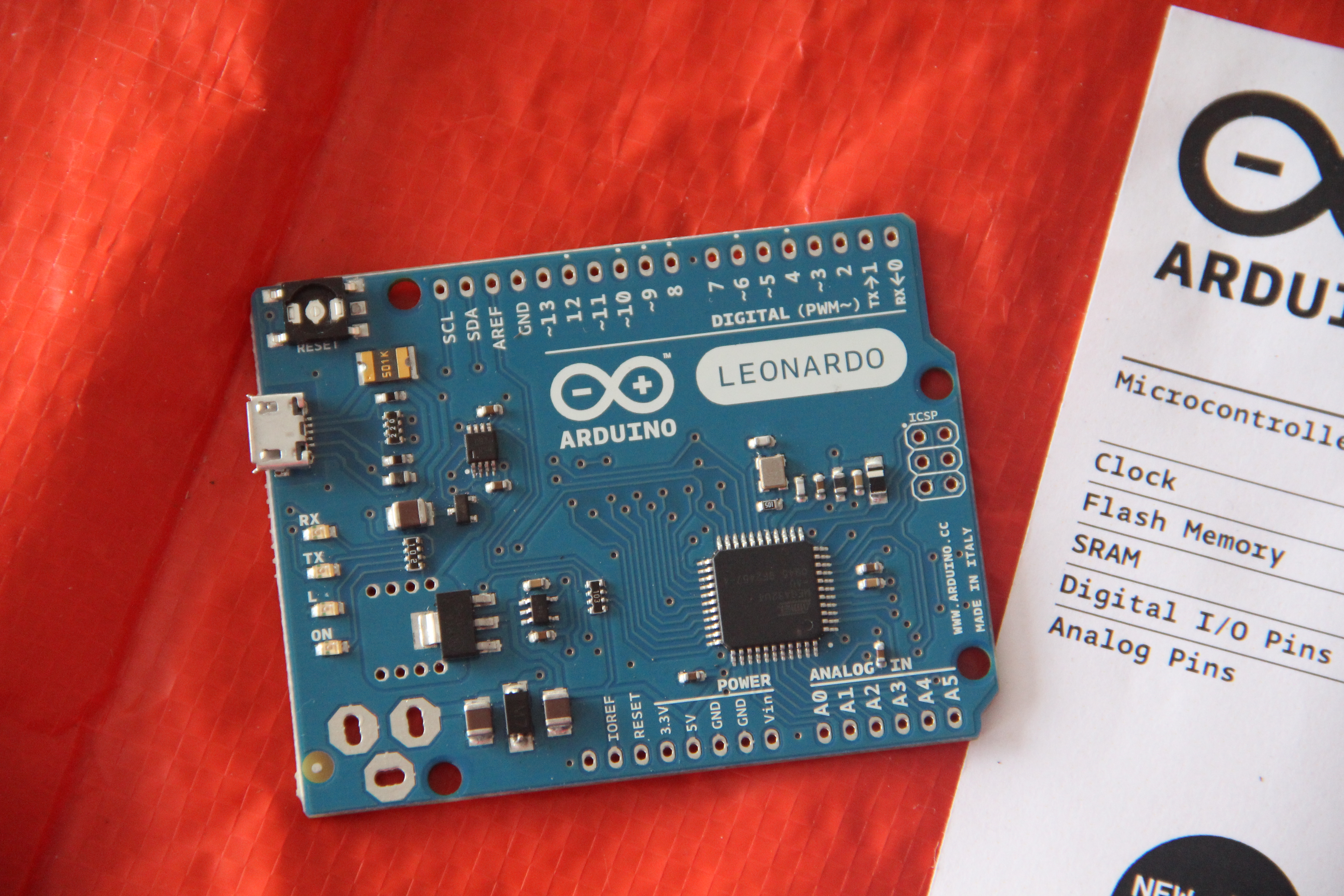 @ Makerfaire NYC Day 2 2011